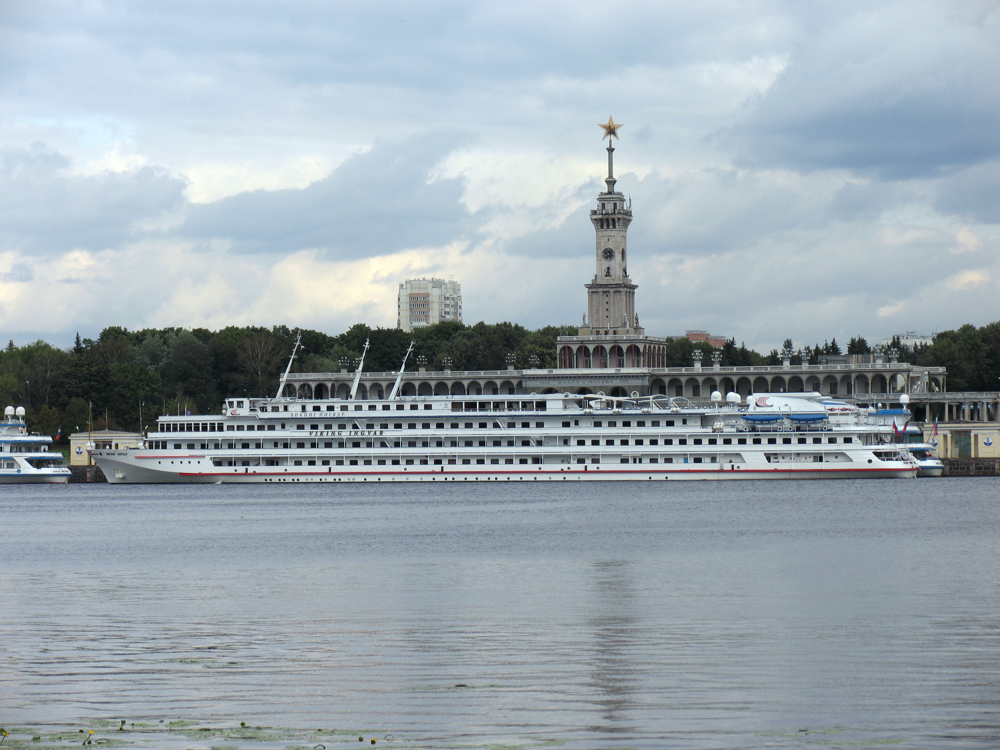 River cruise ship Viking Ingvar at North River Terminal in Moscow